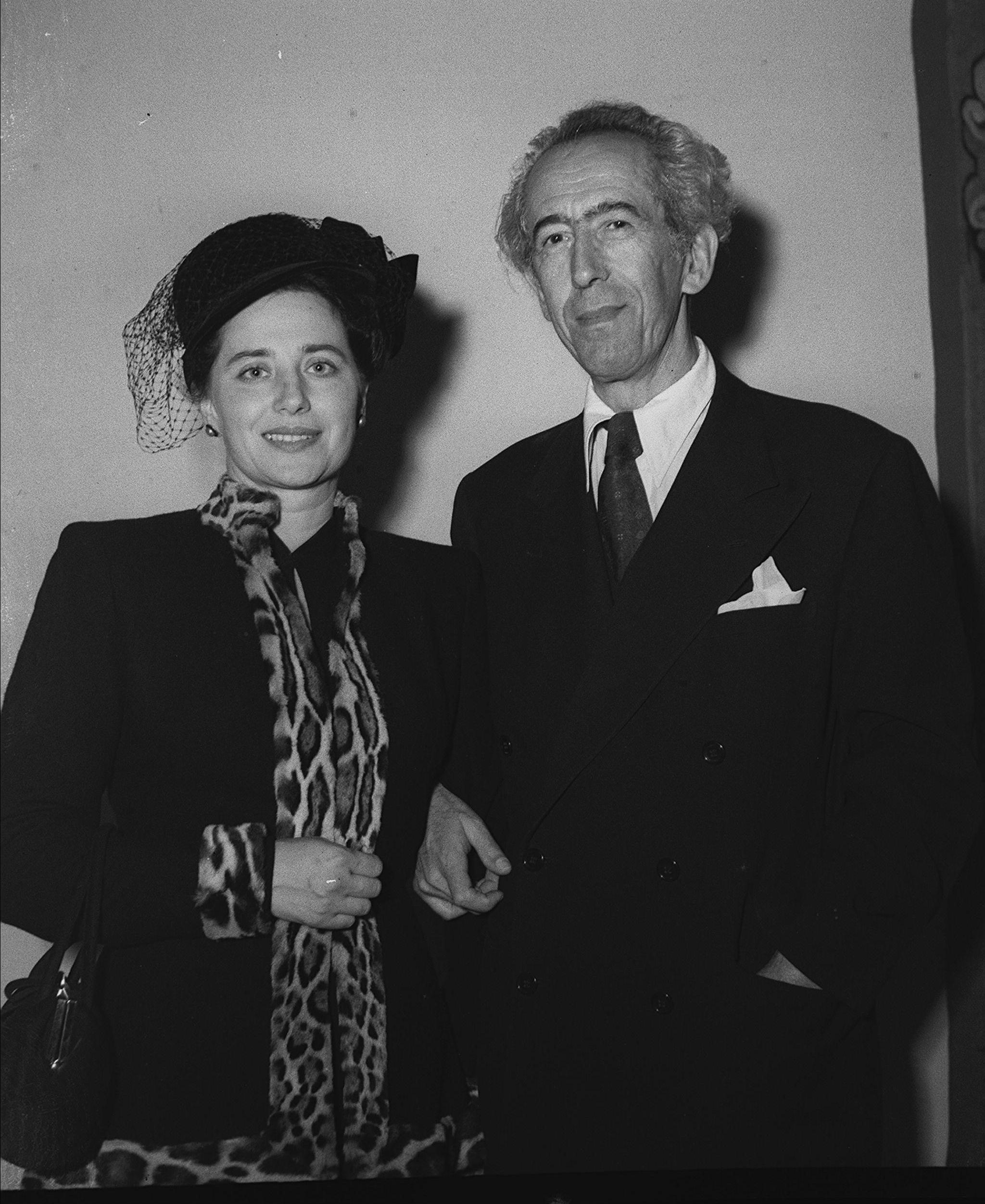 original description:A PHOTO OF THE PAINTER REUVEN RUBIN AND HIS WIFE ESTHER TAKEN WHILE HE SERVED AS ISRAEL'S AMBASSADOR TO ROMANUA.